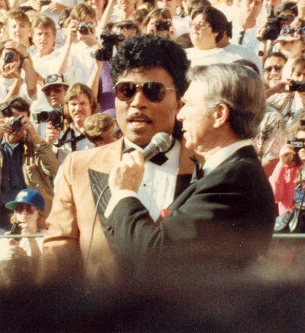 Little Richard being interviewed by Army Archerd on the red carpet at the 60th Annual Academy Awards